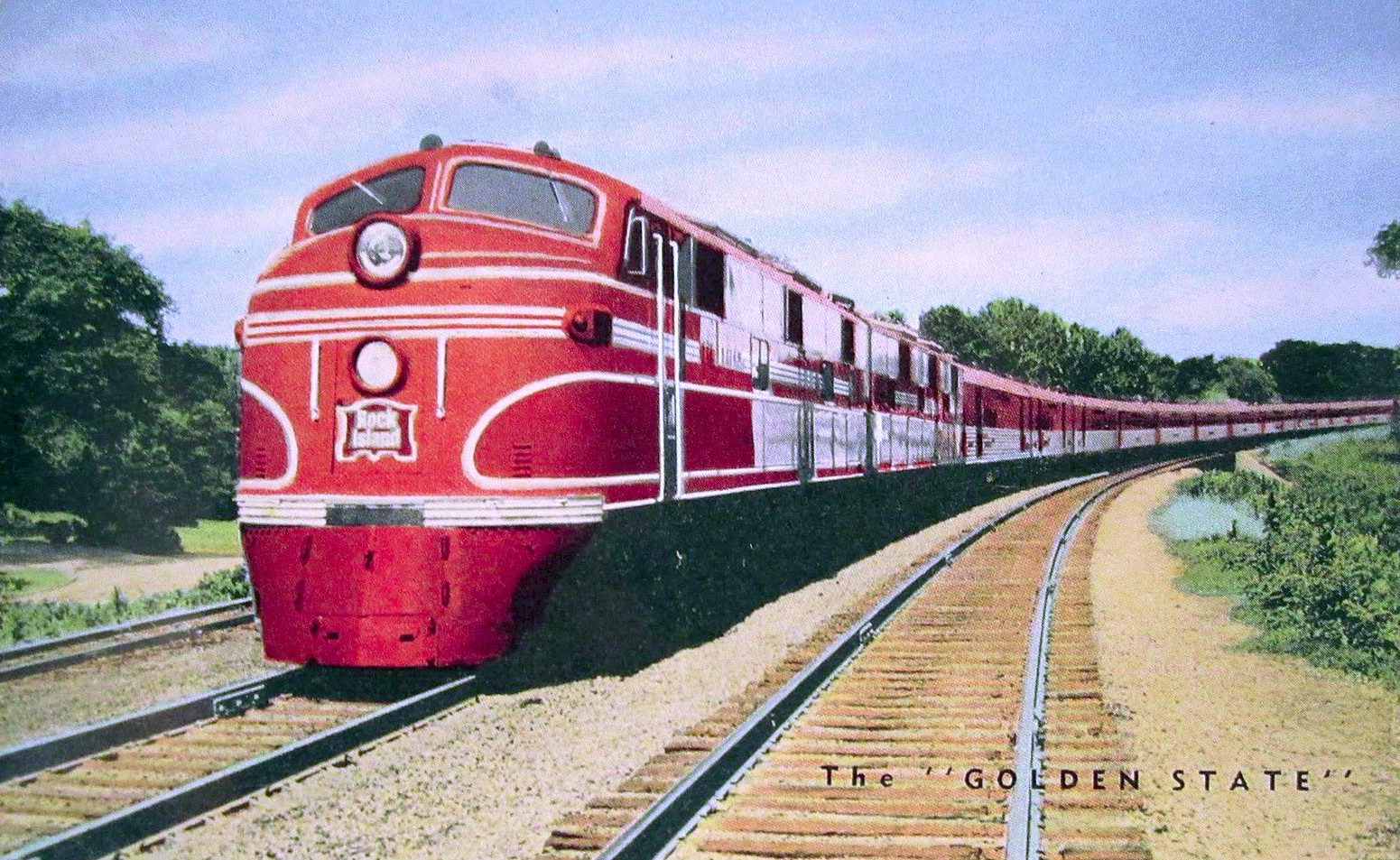 Postcard photo of the Rock Island Golden State, which ran between Chicago and Los Angeles.